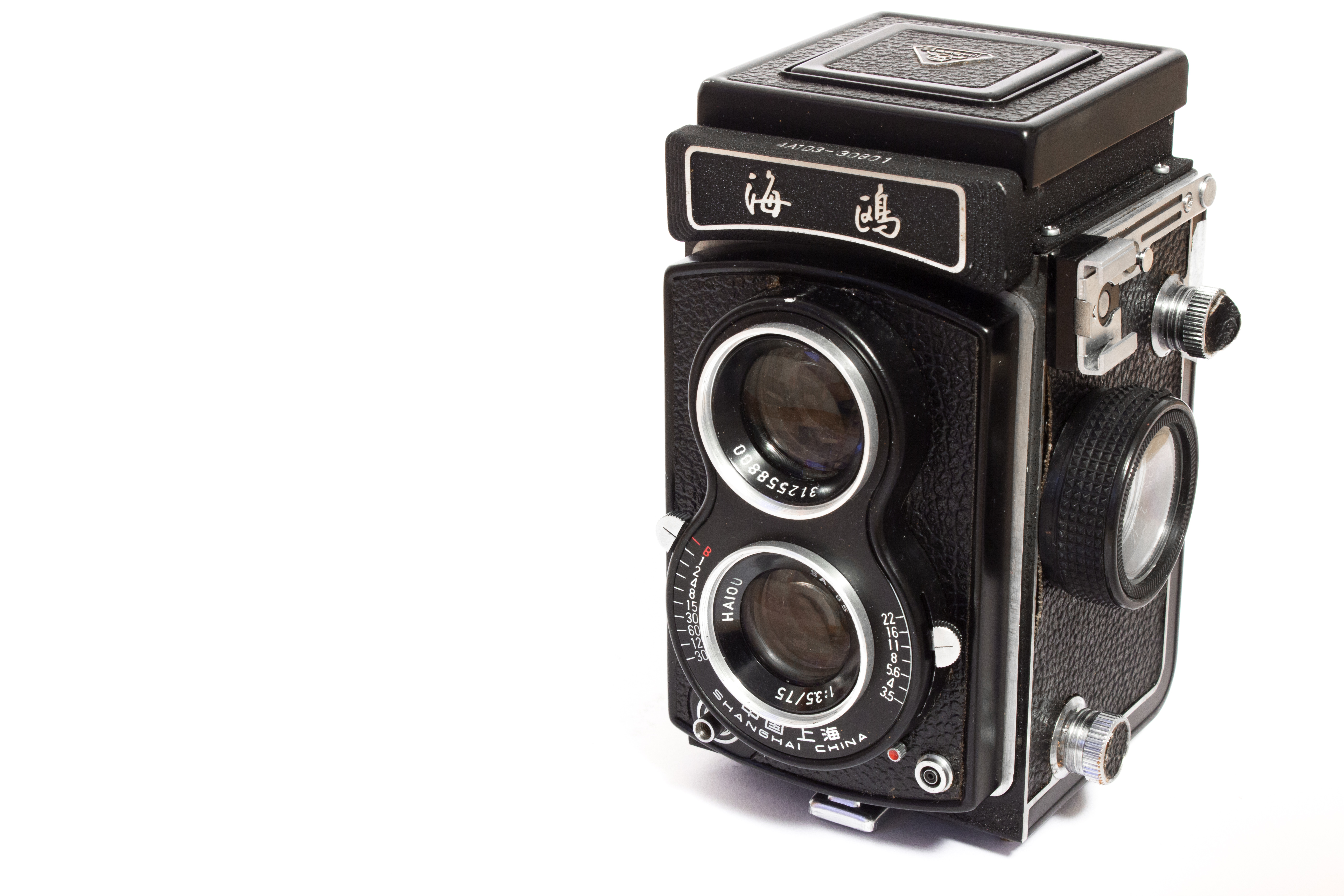 Home studio shot of a chinese Seagull 4A 103 TLR medium format 6x6 analog camera.